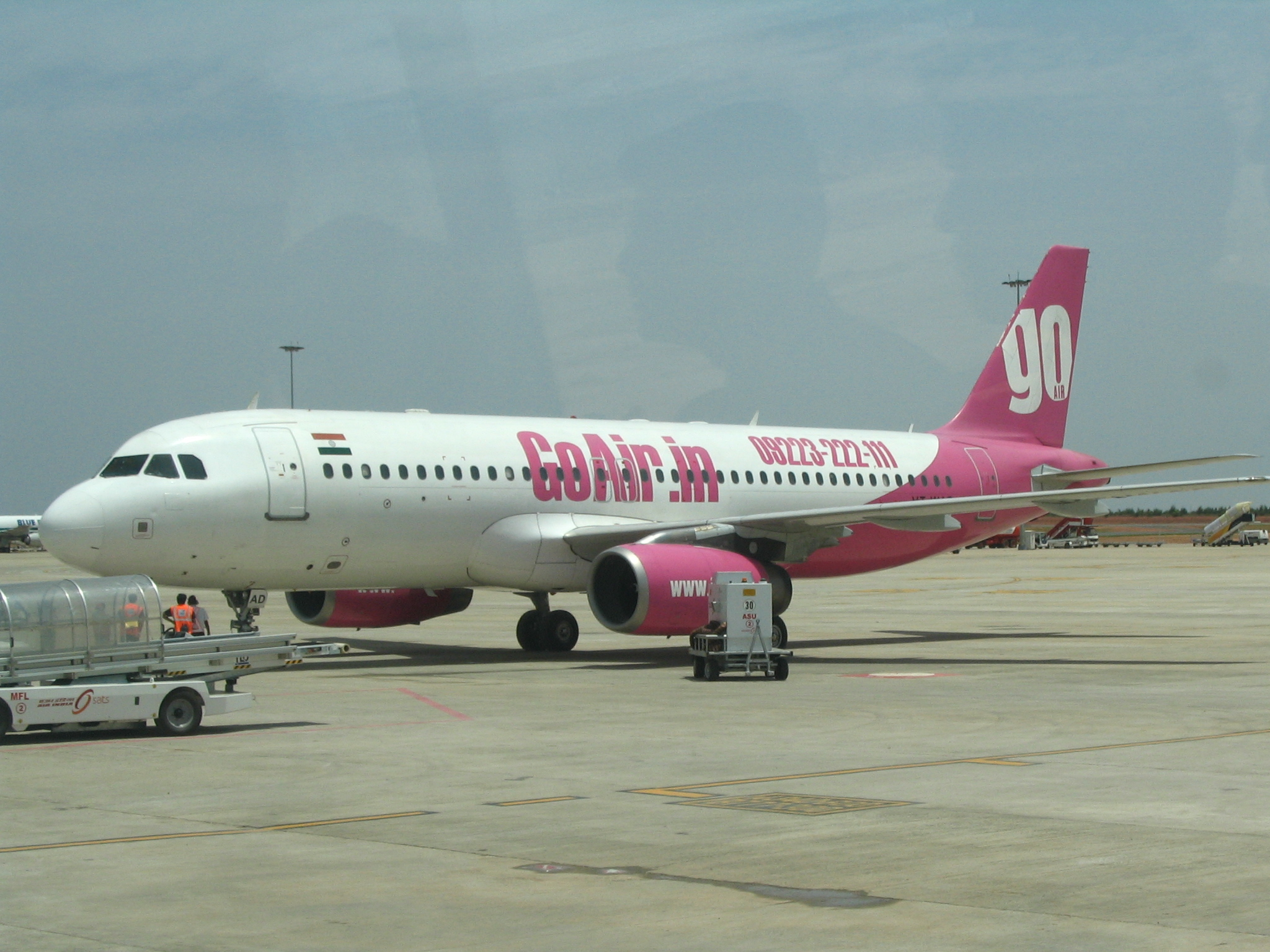 A Go Air aircraft at Bengaluru International Airport.